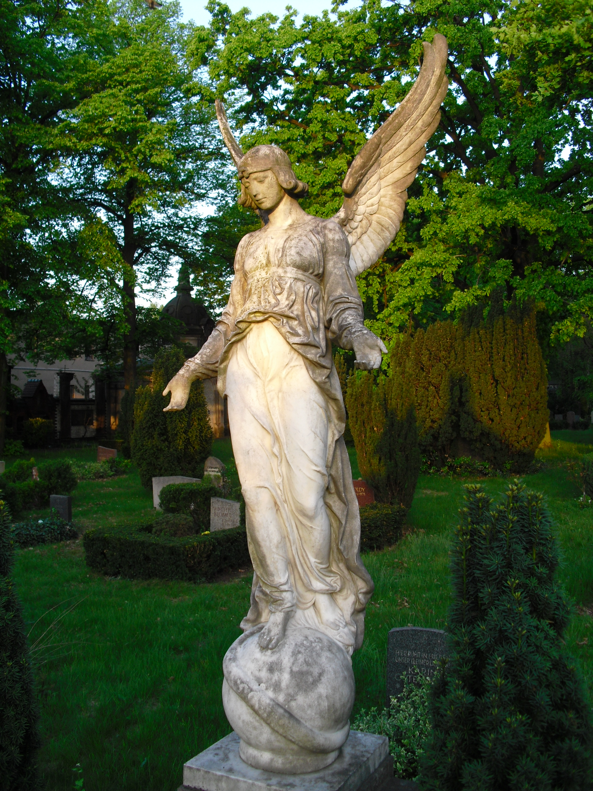 Grave of German salon-holder Bertha von Arnswaldt in Alter Zwölf-Apostel-Kirchhof in Berlin-Schöneberg.